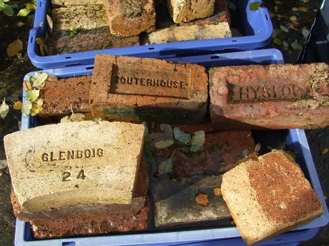 Summerlee Industrial museum Boxes of old bricks with local names lie in a corner of the museum grounds.